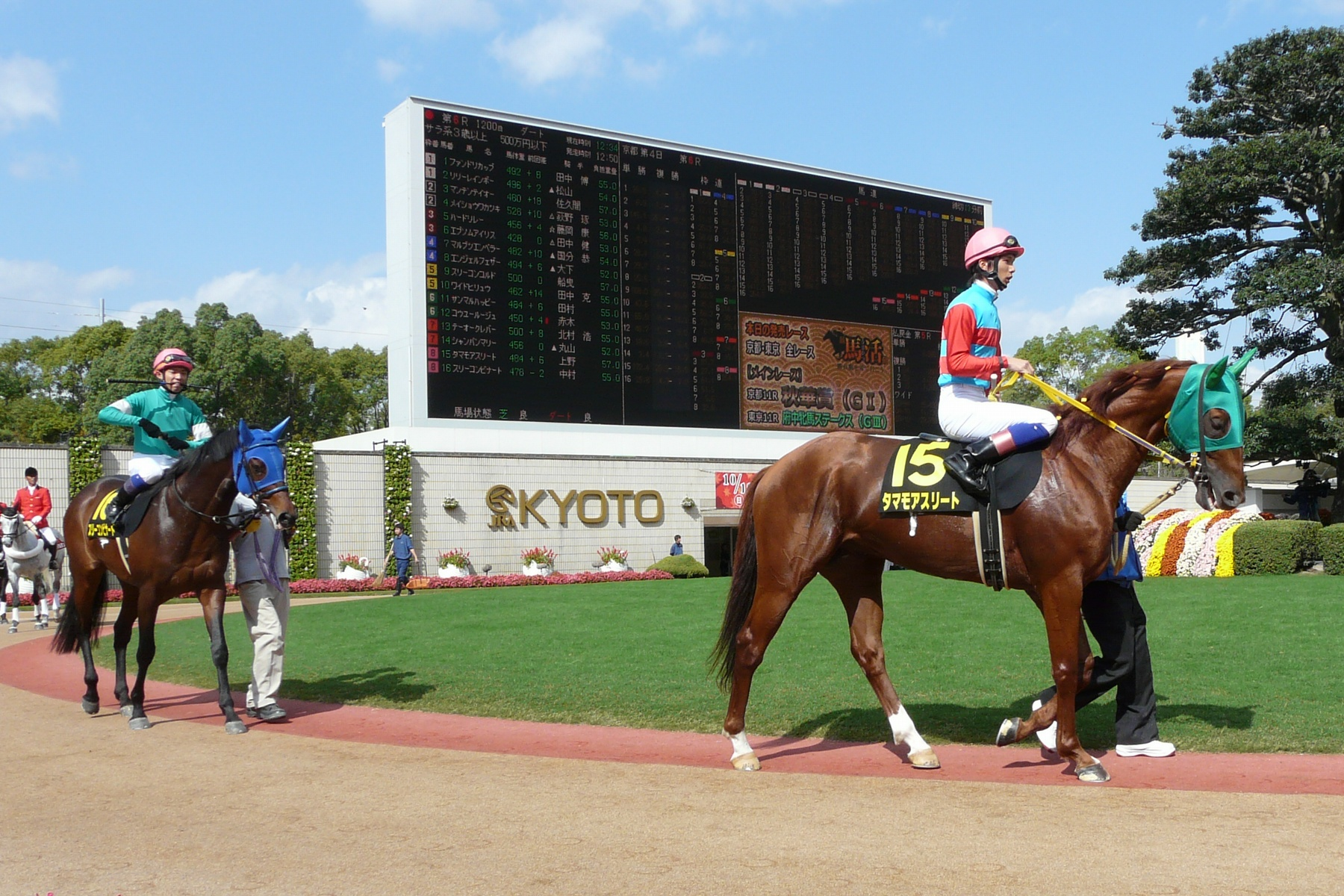 Kyoto-Racecourse-04